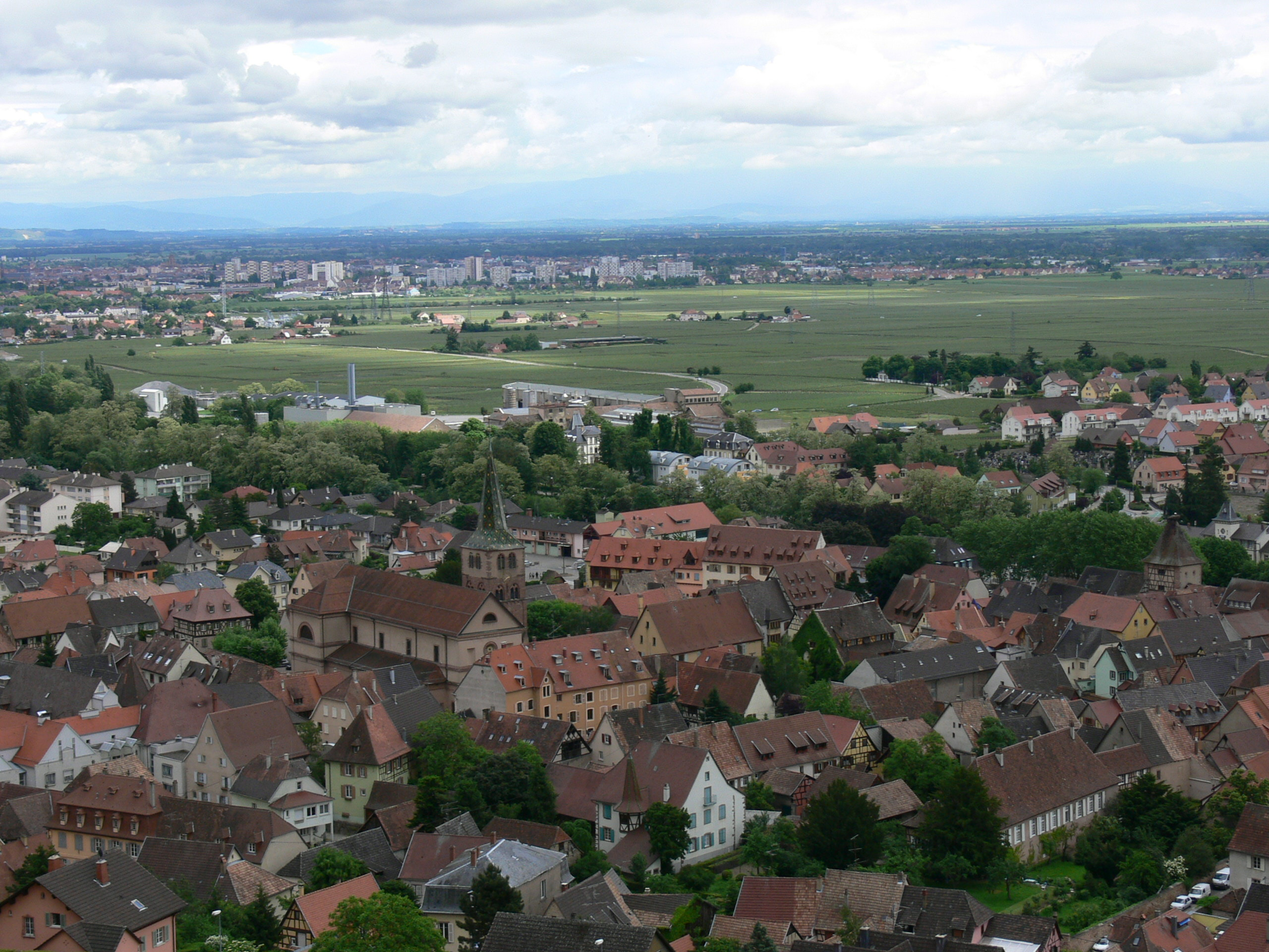 Turckheim, Alsace, France, 2006